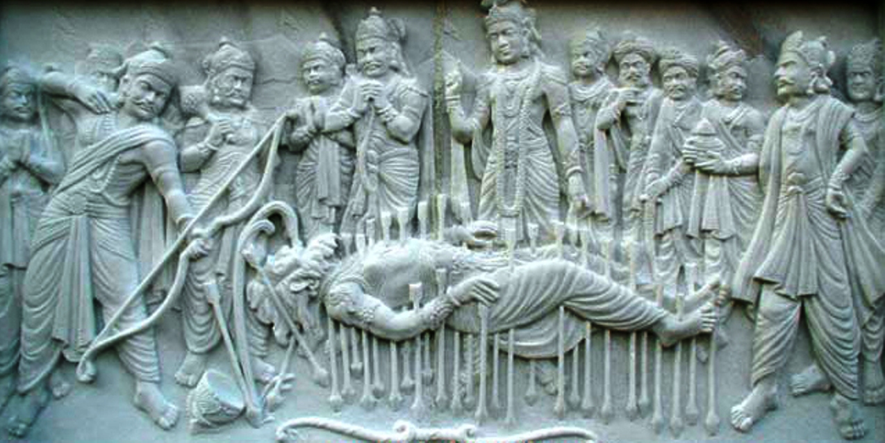 Image of Marble carving at the under construction new Swaminarayan temple in Bhuj. Unfortunately the title of the file is misleading. The relief shows an episode form the epic Mahabharata, where the old hero Bishma, granduncle of Pandavas and Kauravas, is dying on his bed of arrows